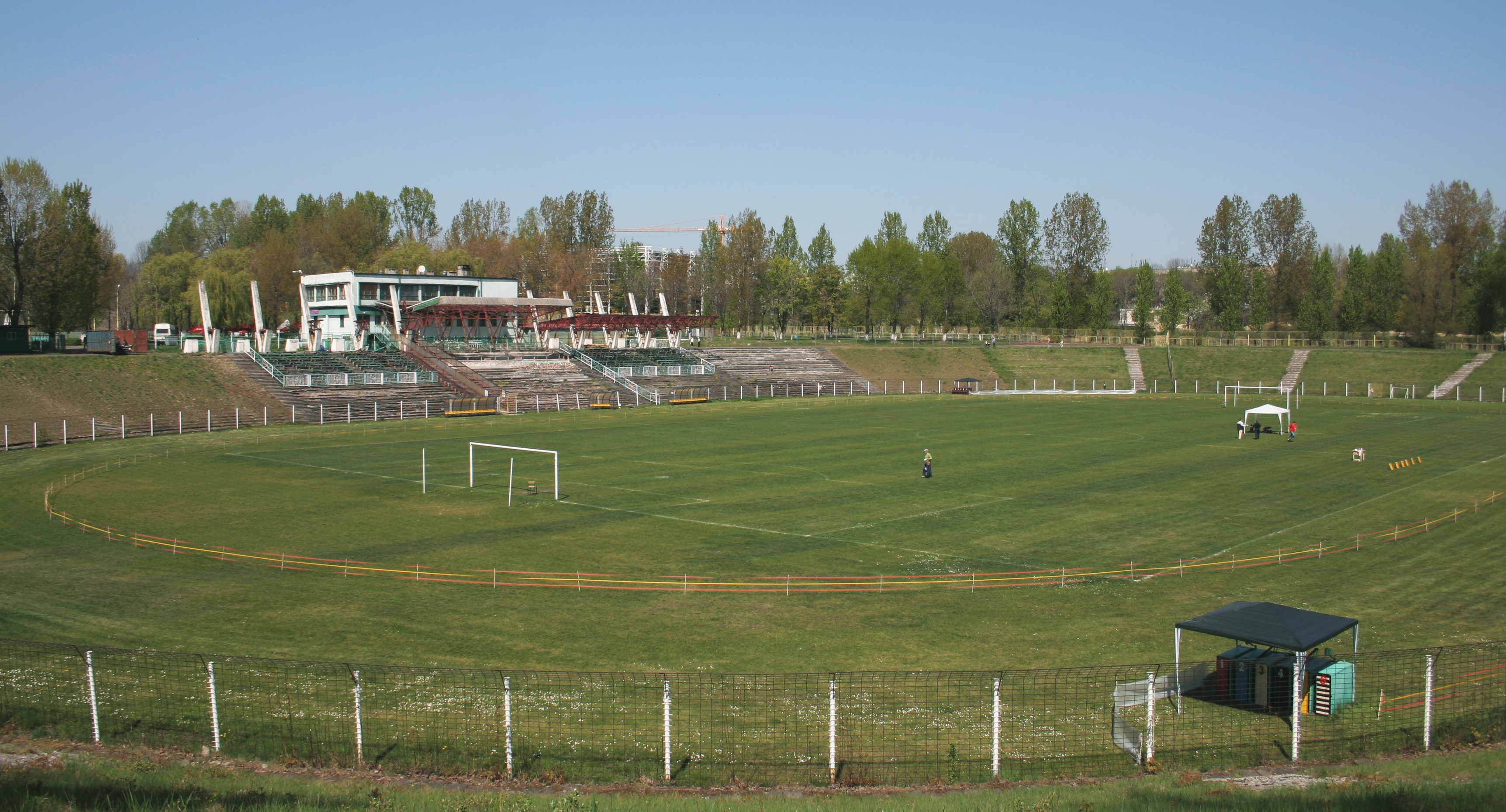 The dog's racing in Bytom - Szombierki, Poland.